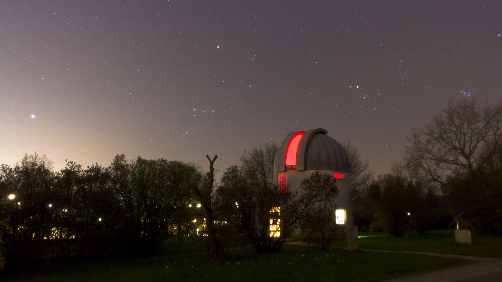 Johannes Kepler Observatory in Linz, Austria, in a clear night. In the sky, the bright star Sirius, the prominent constellation Orion, as well as the Hyades und Pleiades star clusters are visible.